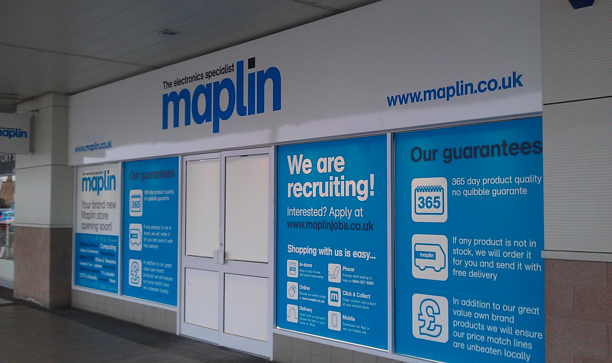 Maplin Electronics store at One Stop shopping centre, Perry Barr, Birmingham, England, two weeks before the scheduled opening.